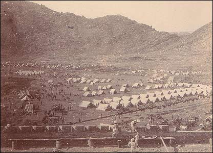 Image for the Siege of Malakand from BBC News article, copyright expired.